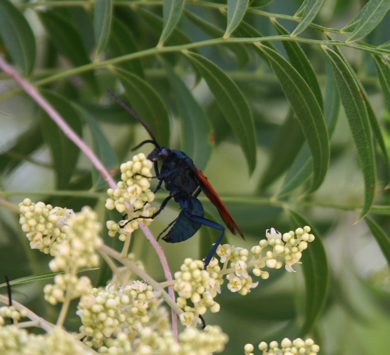 Tarantula (hawk) wasp, taken by Kynn Bartlett at the Arizona-Sonora Desert Museum, June 2006.